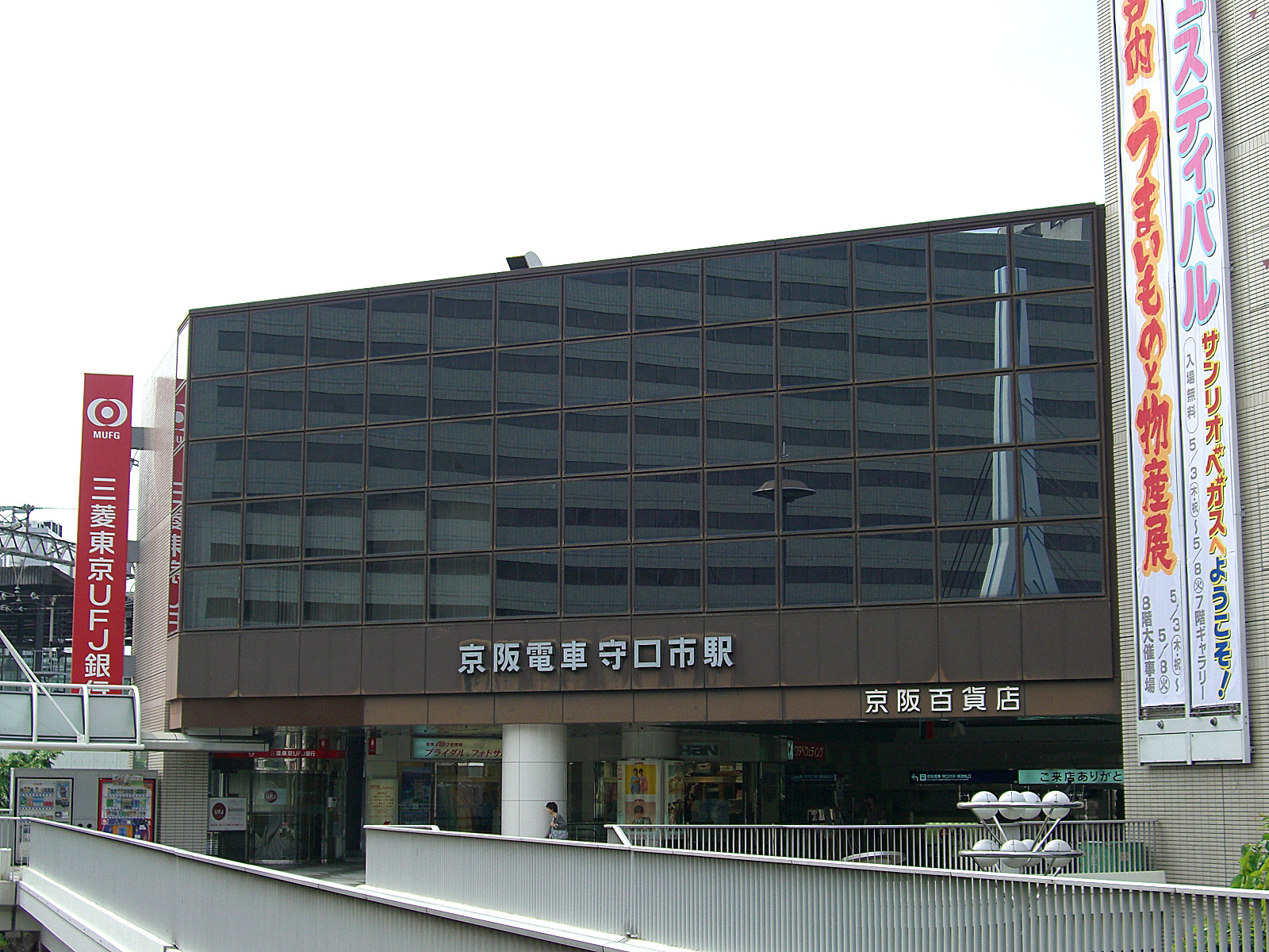 Keihan Electric Railway Keihan Main Line Moriguchishi Station Building East Gate（Keihan Department Store Side）